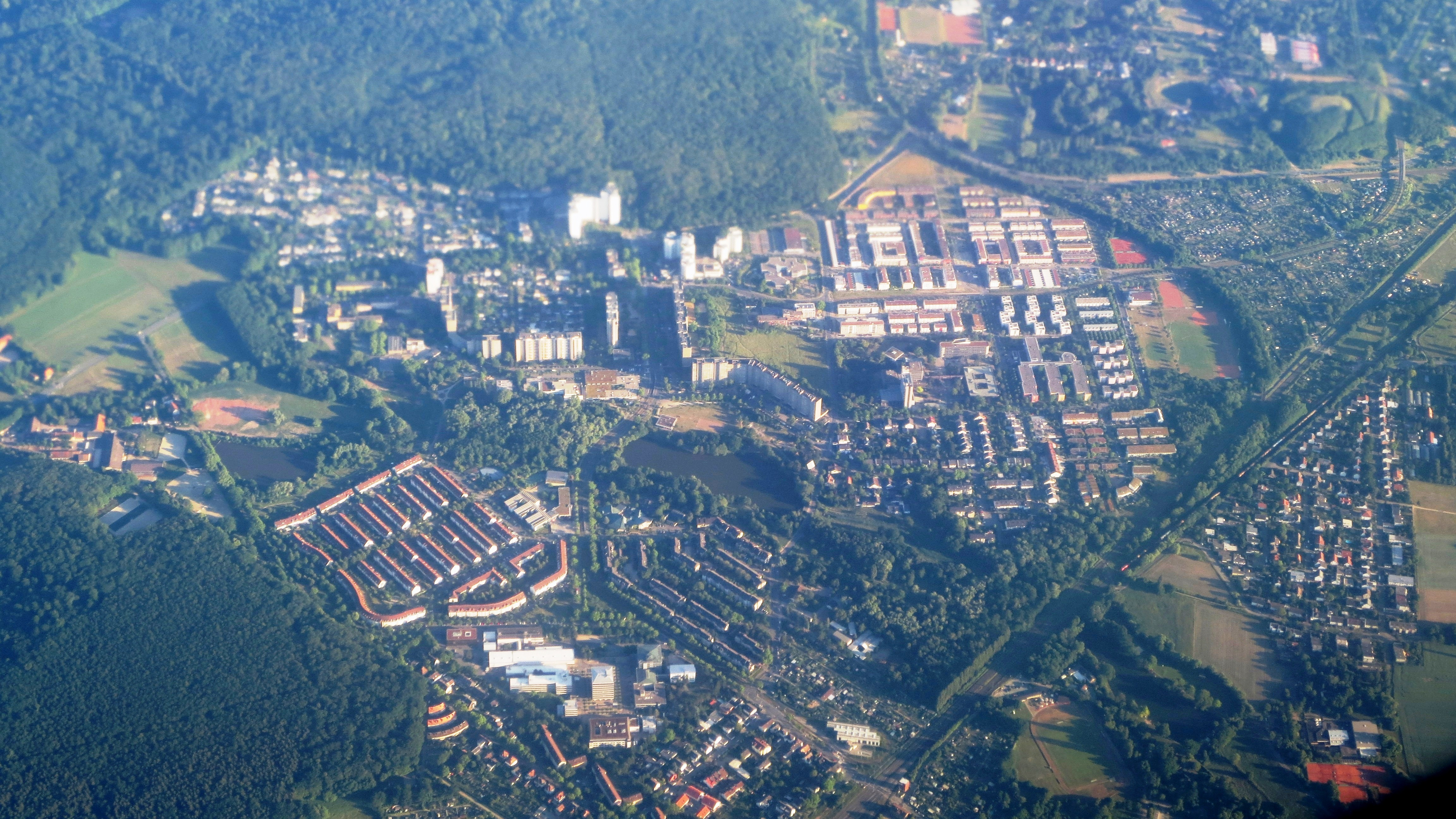 Aerial view over Darmstadt, Germany - seen from the north towards south